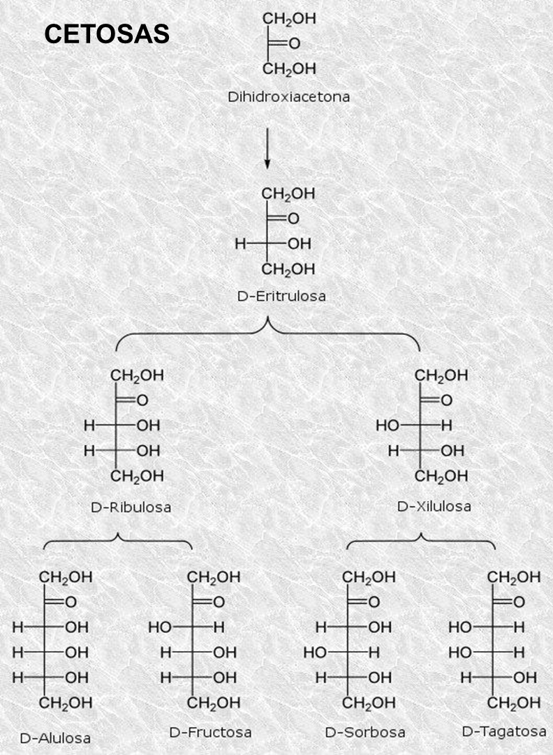 familia de los monosacaridos cetosas